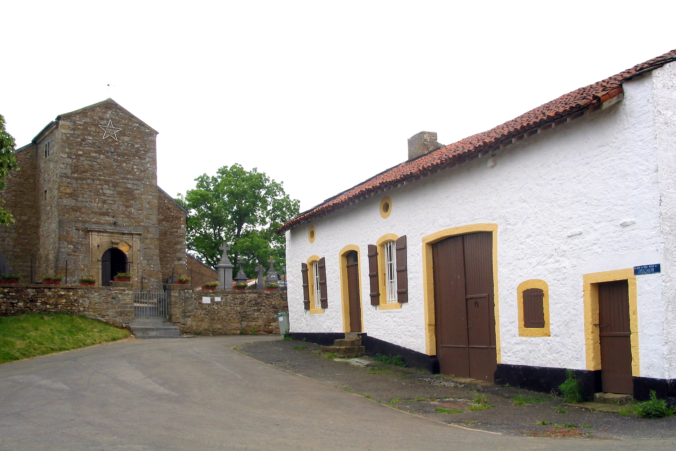 Montquintin (Belgique), l’église Saint-Quentin (XIIe siècle) et la ferme de la dîme.